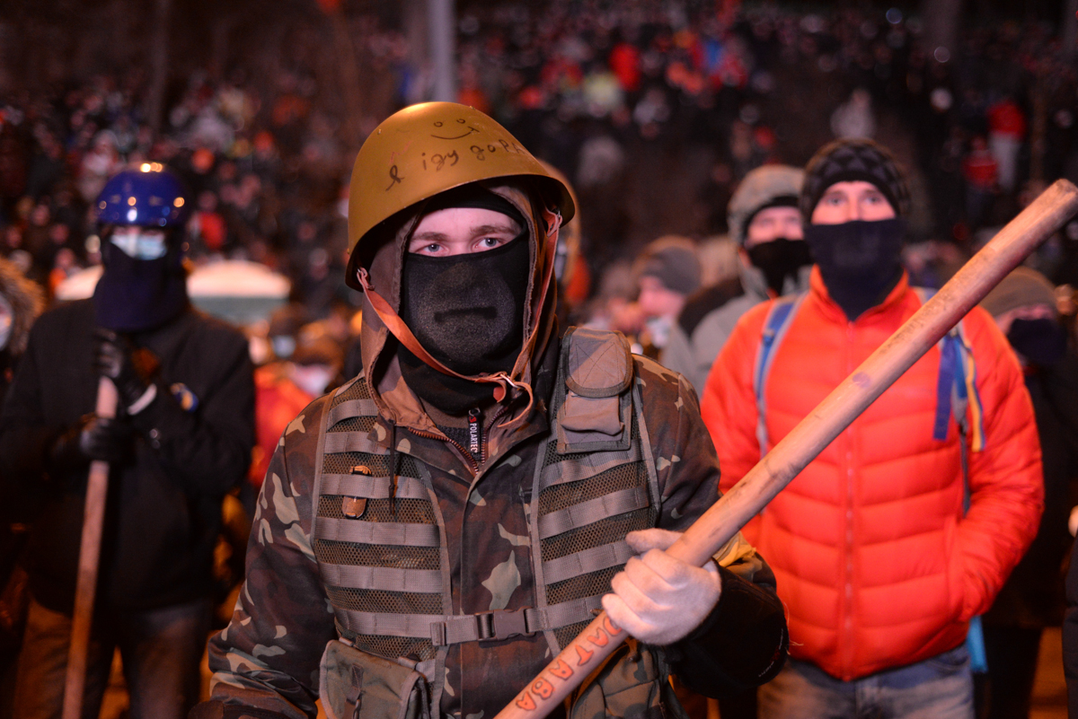 Radically oriented masked protesters weaponed with shovels, Dynamivska str. Euromaidan Protests. Events of Jan 19, 2014